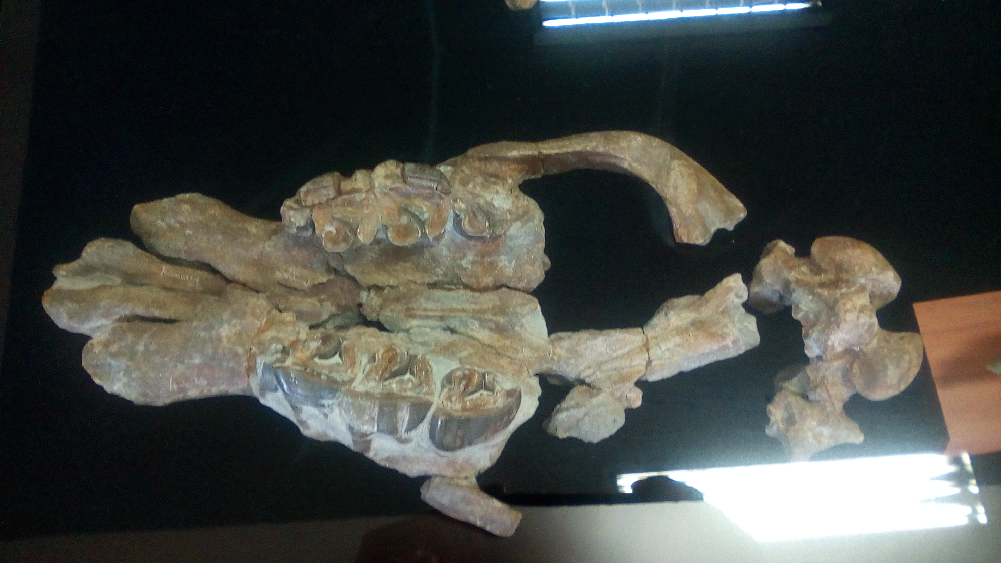 Ventral view of the skull of the astrapothere Hilarcotherium castanedaii. Museo Geológico José Royo y Gómez, Bogotá.